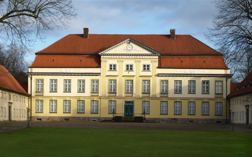 Manorial domain Emkendorf (Slesvic-Holstein, Germany), manor-house, photo 2008